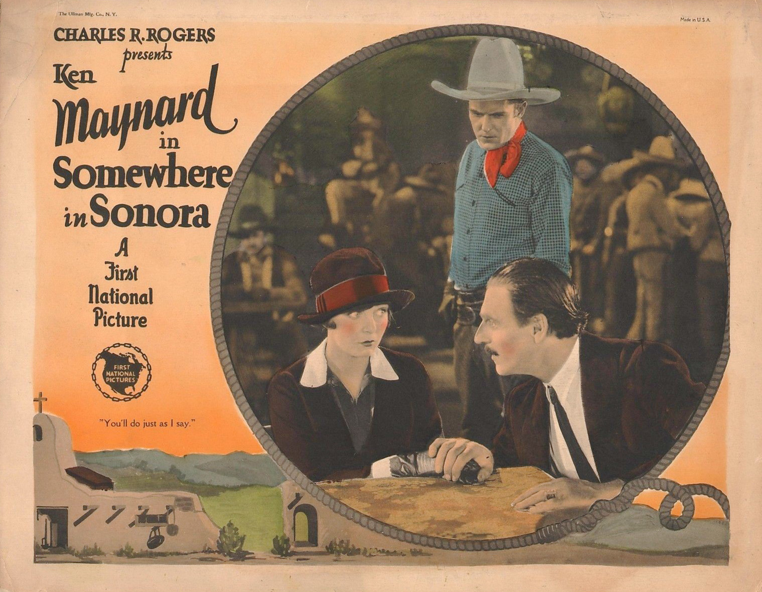 Lobby card for the American western film Somewhere in Sonora (1927) showing (from left) Kathleen Collins, Ken Maynard, and Richard Neill.